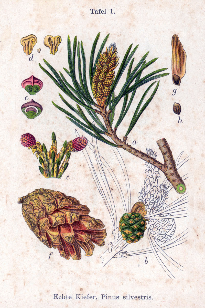 Pinus sylvestris L. Original Description Echte Kiefer, Pinus silvestris